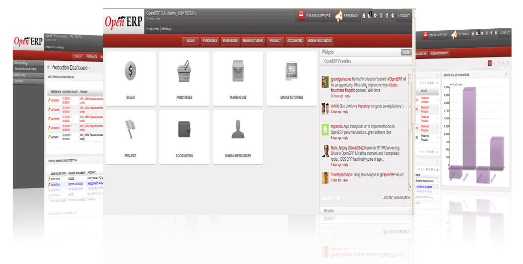 Screenshots of OpenERP V6